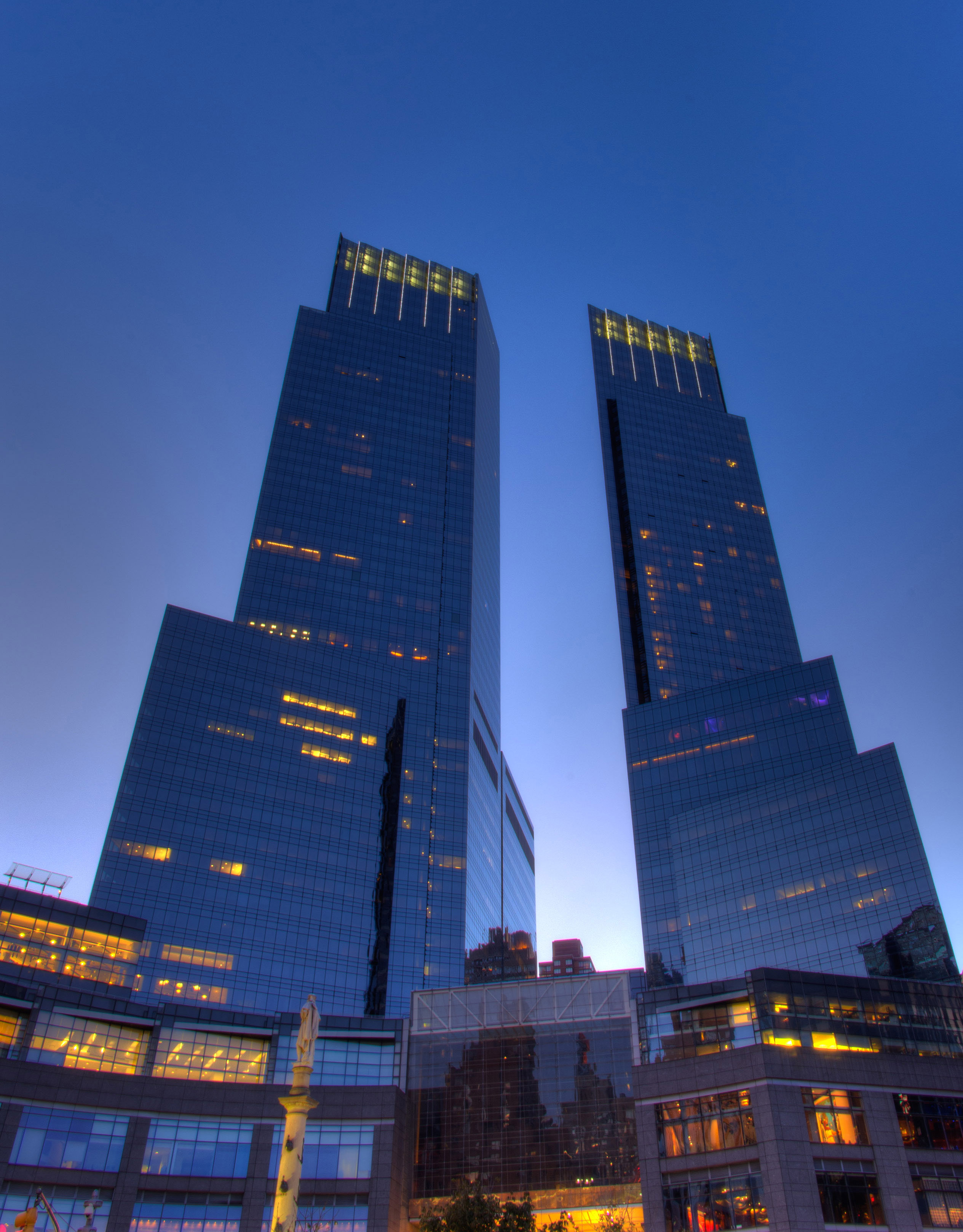 The Time Warner Center as seen from Columbus Circle.